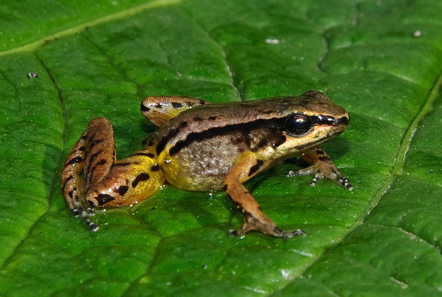 Hyloxalus subpunctatus